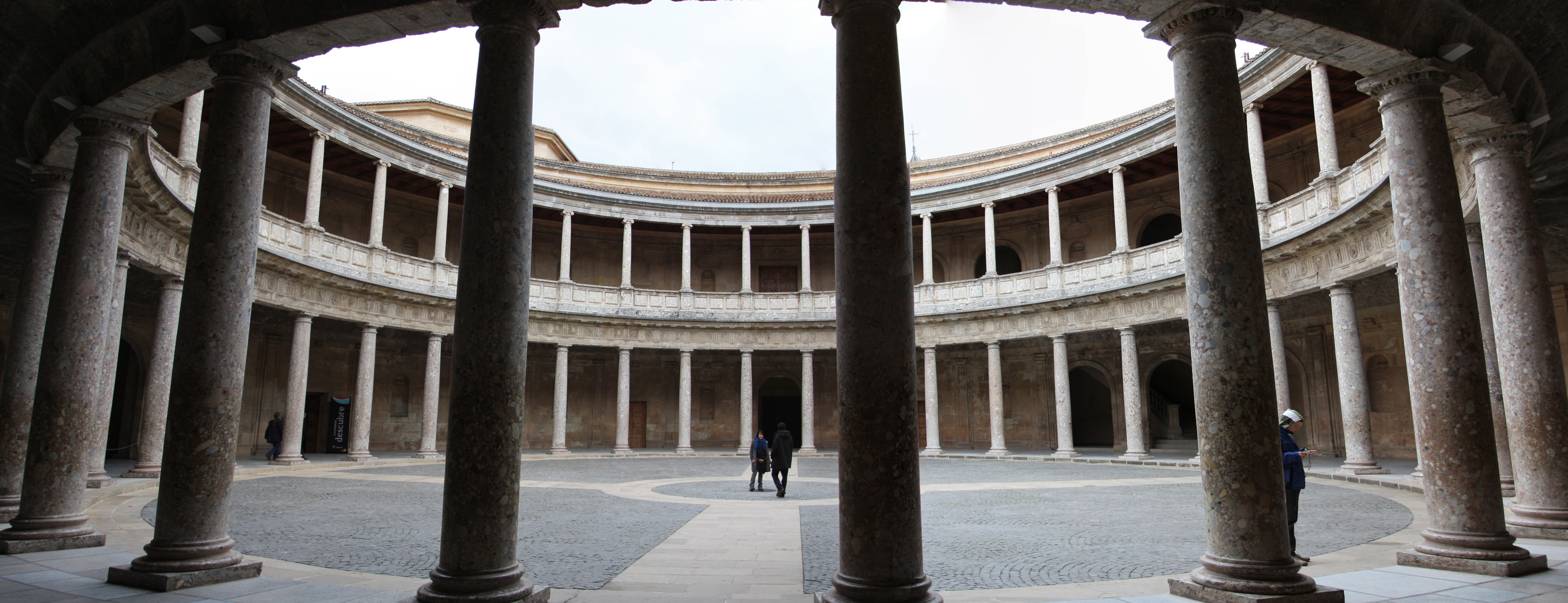 Palace of Charles V in Granada, Andalusia, Spain.